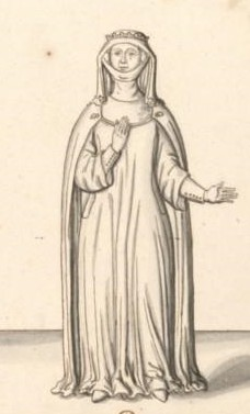 Margaret of Artois